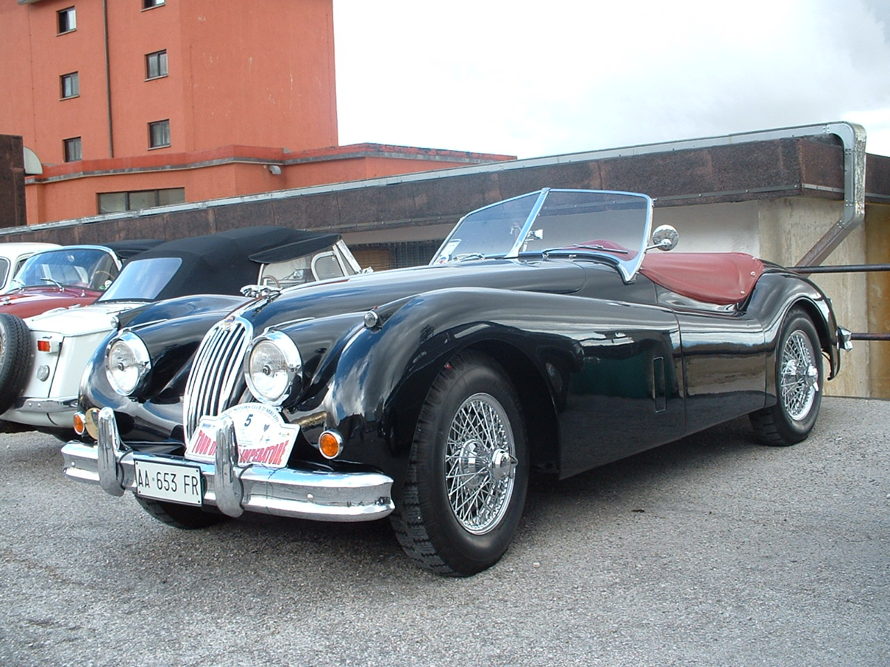 The Jaguar XK140 is a sports car manufactured by Jaguar between 1954 and 1957